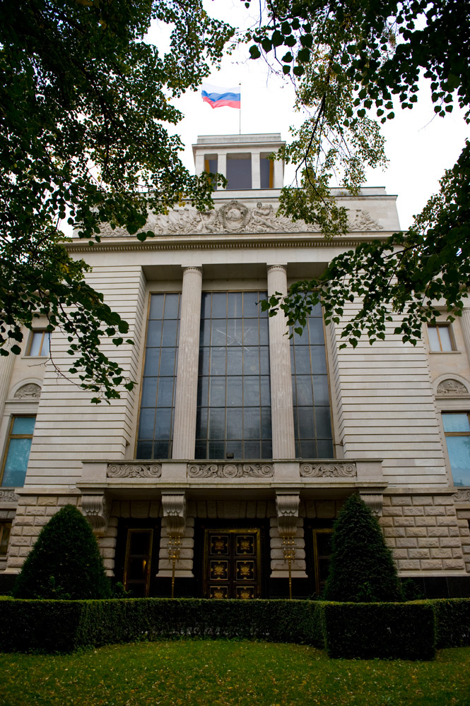 Embassy of the Russian Federation in Berlin, Unter den Linden 63-65, 10117 Berlin